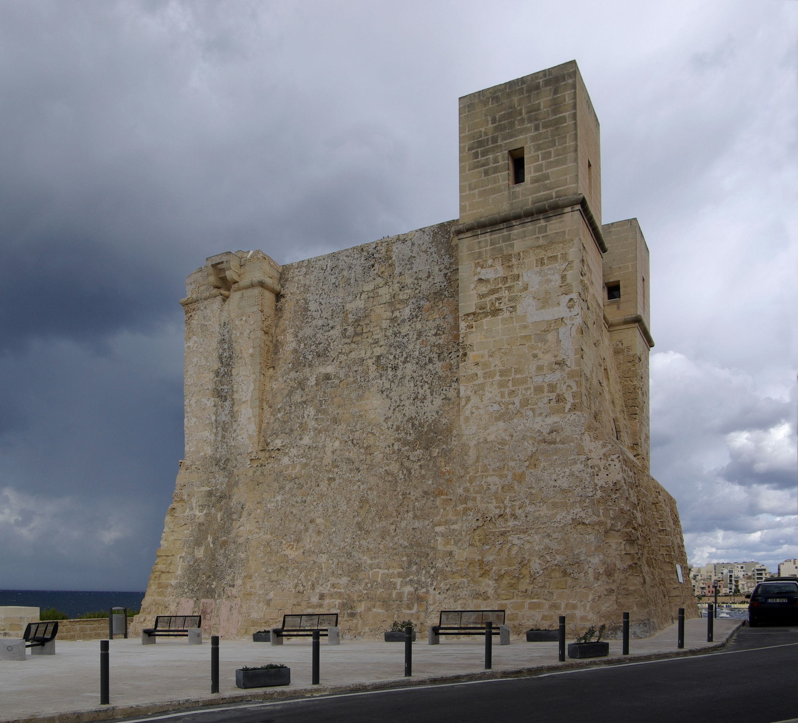 Malta, Wignacourt tower